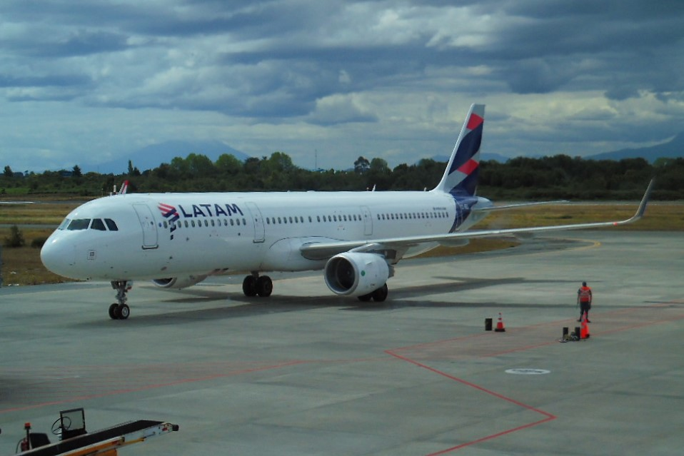 A321